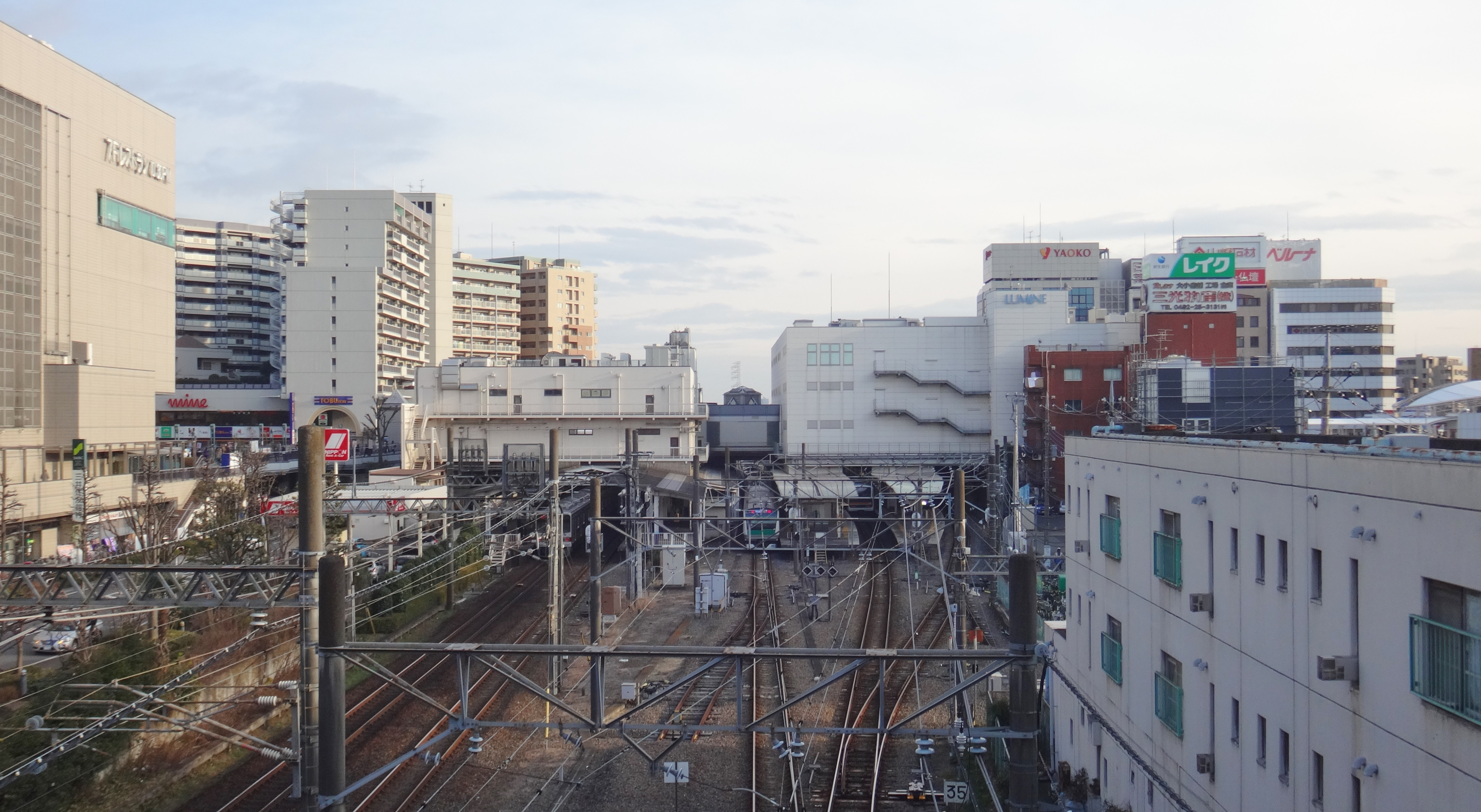 Kawagoe Station on the Tobu Tojo Line and JR Kawagoe Line, viewed from the north end, with the Tobu platforms on the left and the JR East platforms on the right